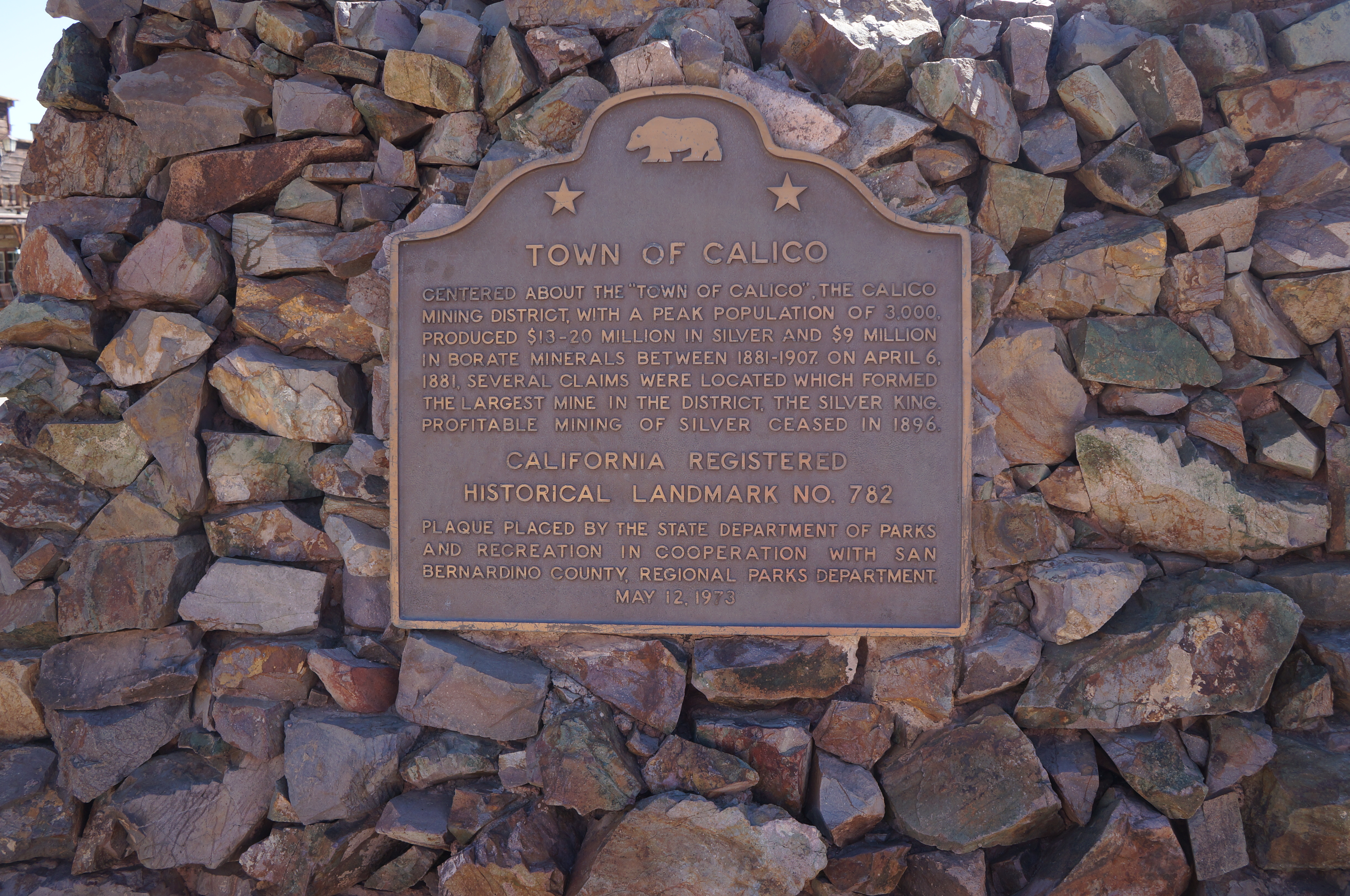 Historical landmark N°782 in Calico Ghost Town.- San Bernardino County, Southern California.